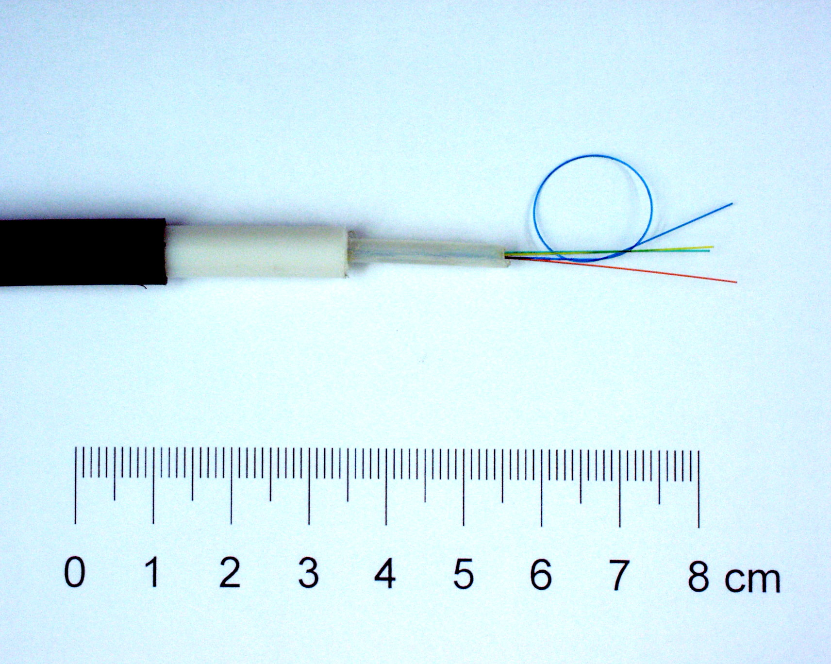 Optical cable with 4 fiber.